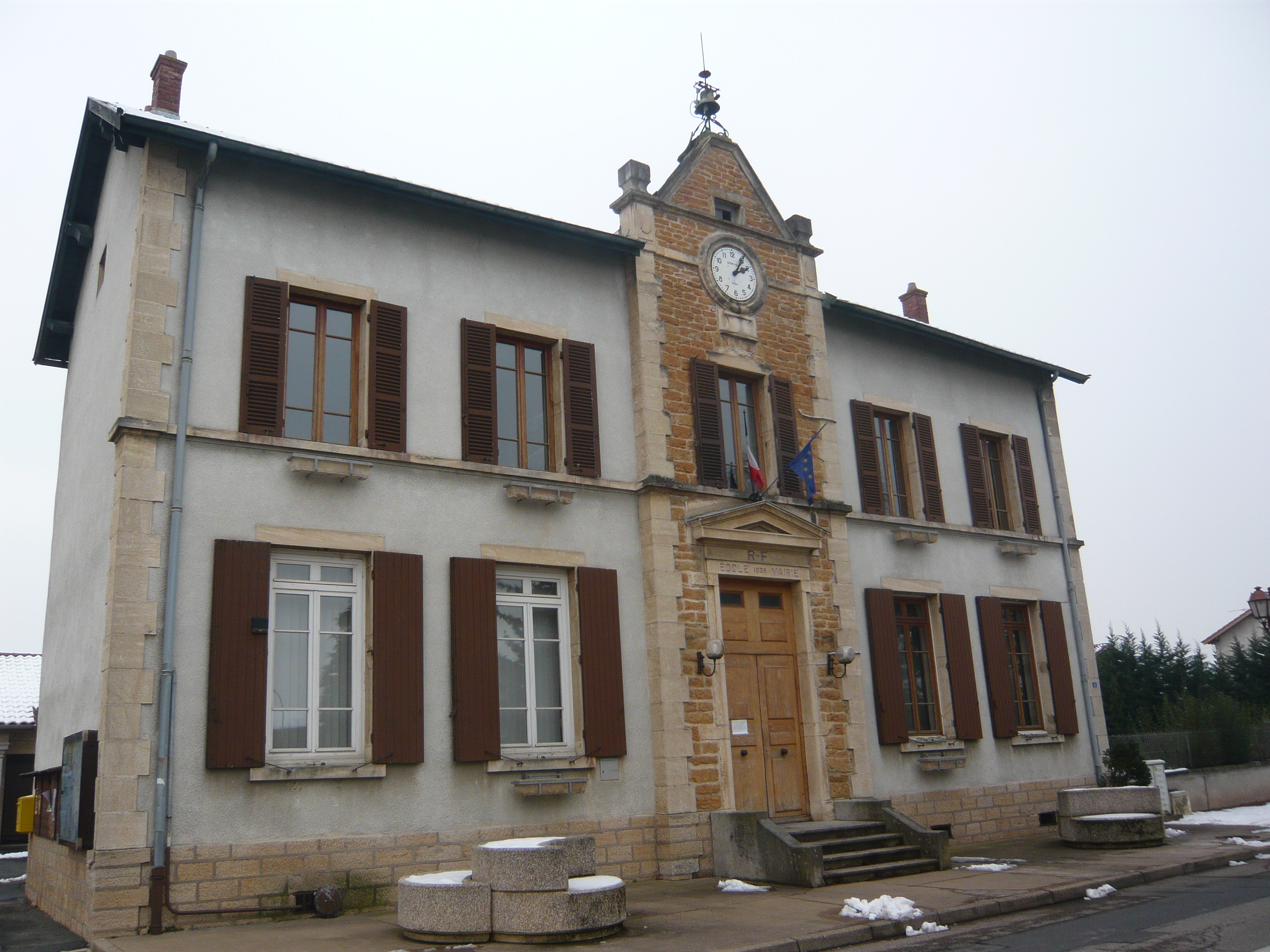 Town hall of Ambérieux (Rhône department), France.